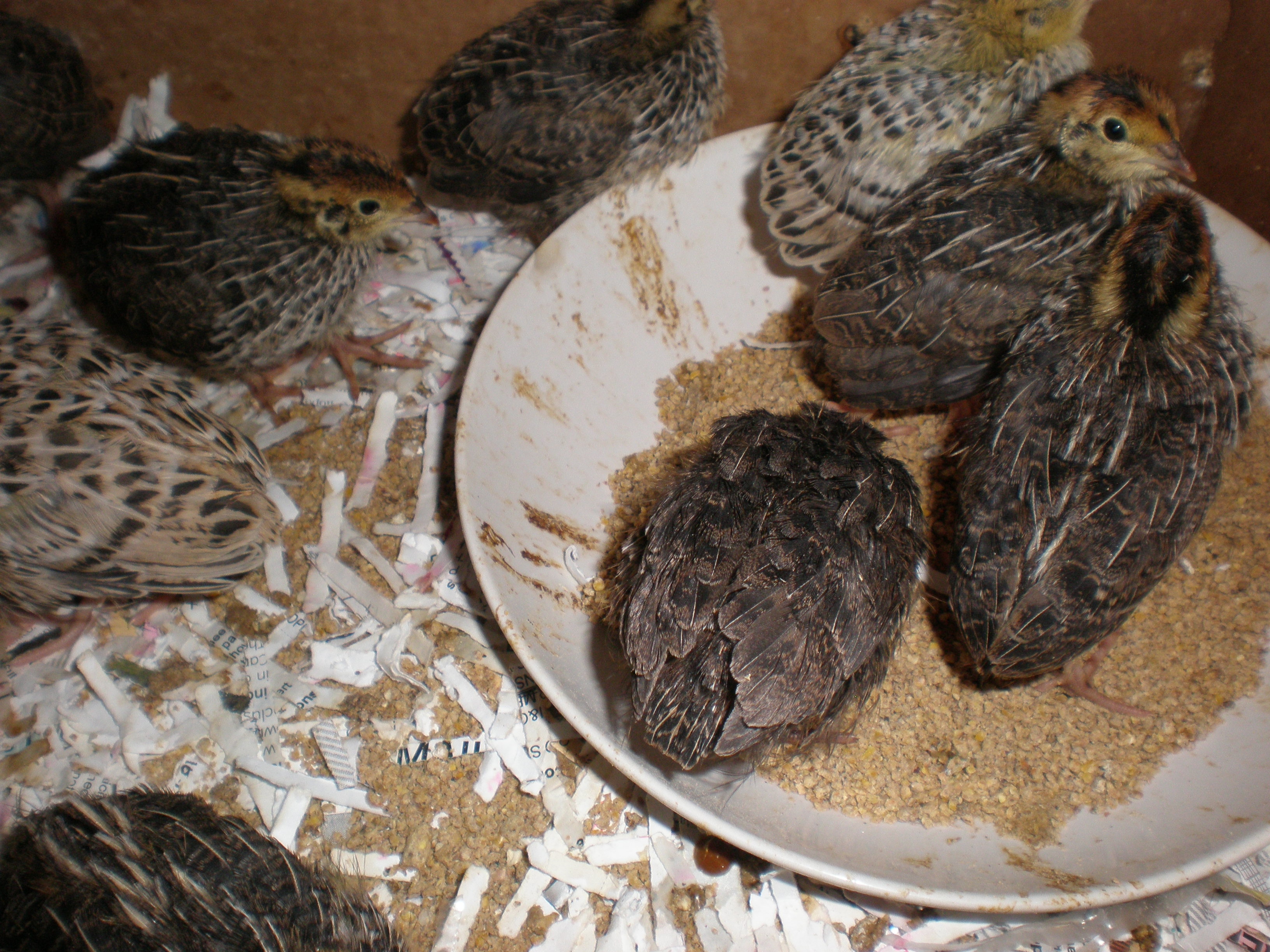 2 week old Japanese quail chicks.